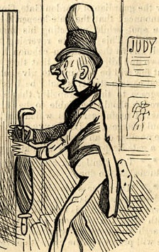 From the first panel of "Cruelty to Judy's New Contributor" (Judy, August 19, 1874)